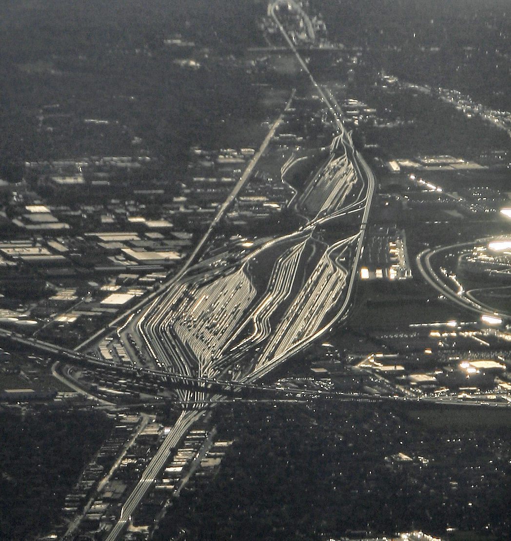 A view of the Bensenville Yard, from over Lake Michigan, looking back toward the sun. Not nearly as clear as the shot while flying over it with the sun to my back, but still interesting. The Tri-State Tollway cuts across the foreground. O'Hare is to the right. East Irving Park Road snakes between them.